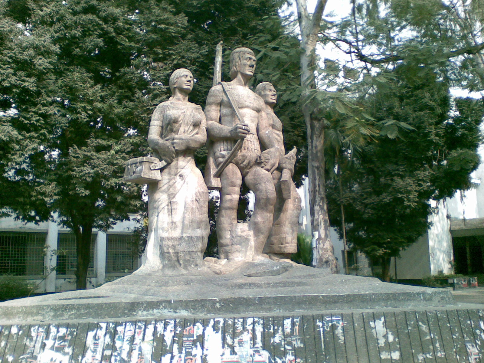 Category: Sculpture; Sculptor: Sayeed Abdullah Khaled; Location: In front of Dhaka University's Arts Faculty